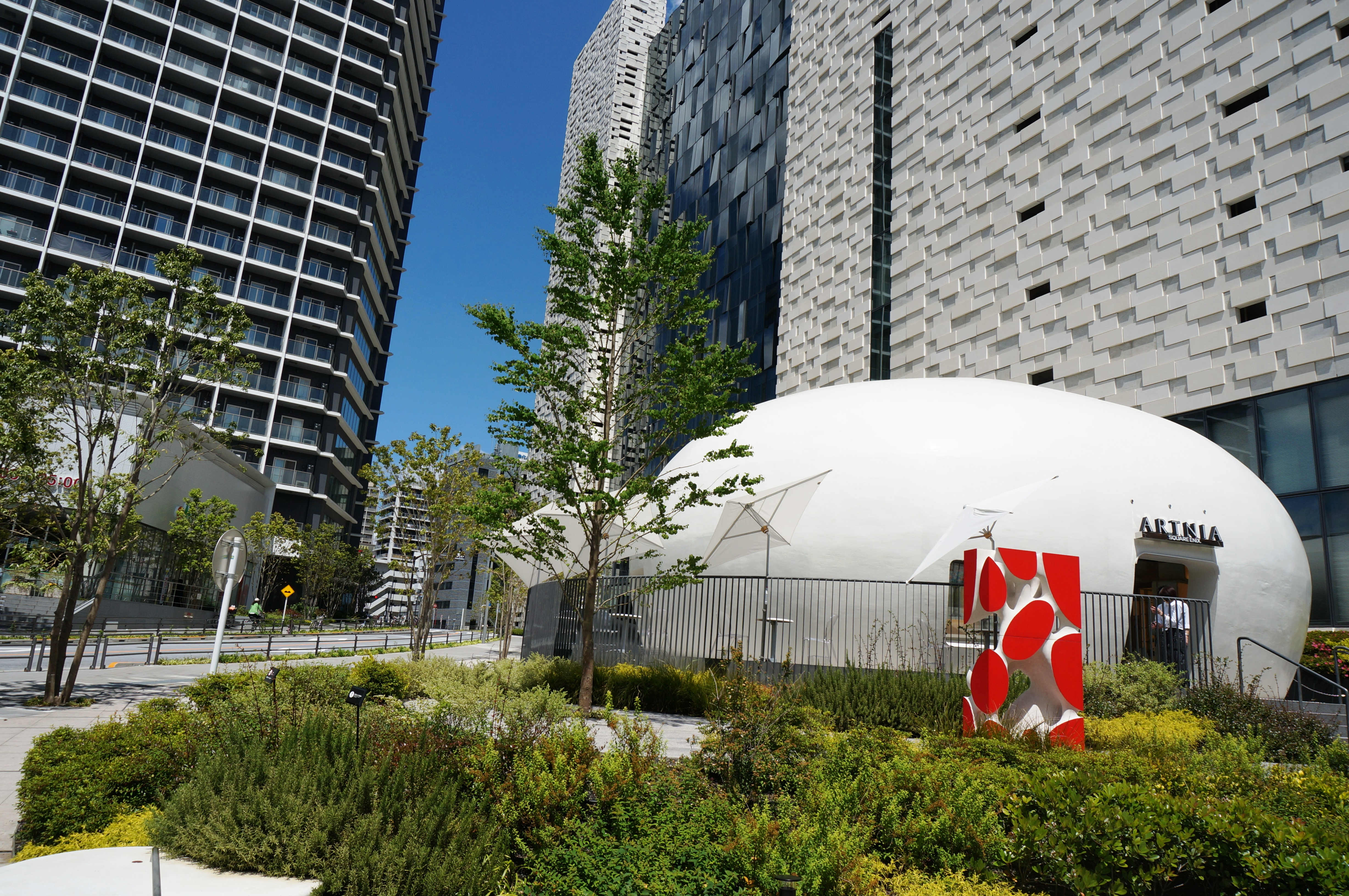 artnia in Shinjuku Eastside